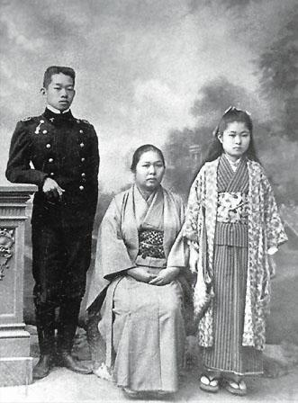 Family of Nicholas Tifontay - wife, son and daughter.